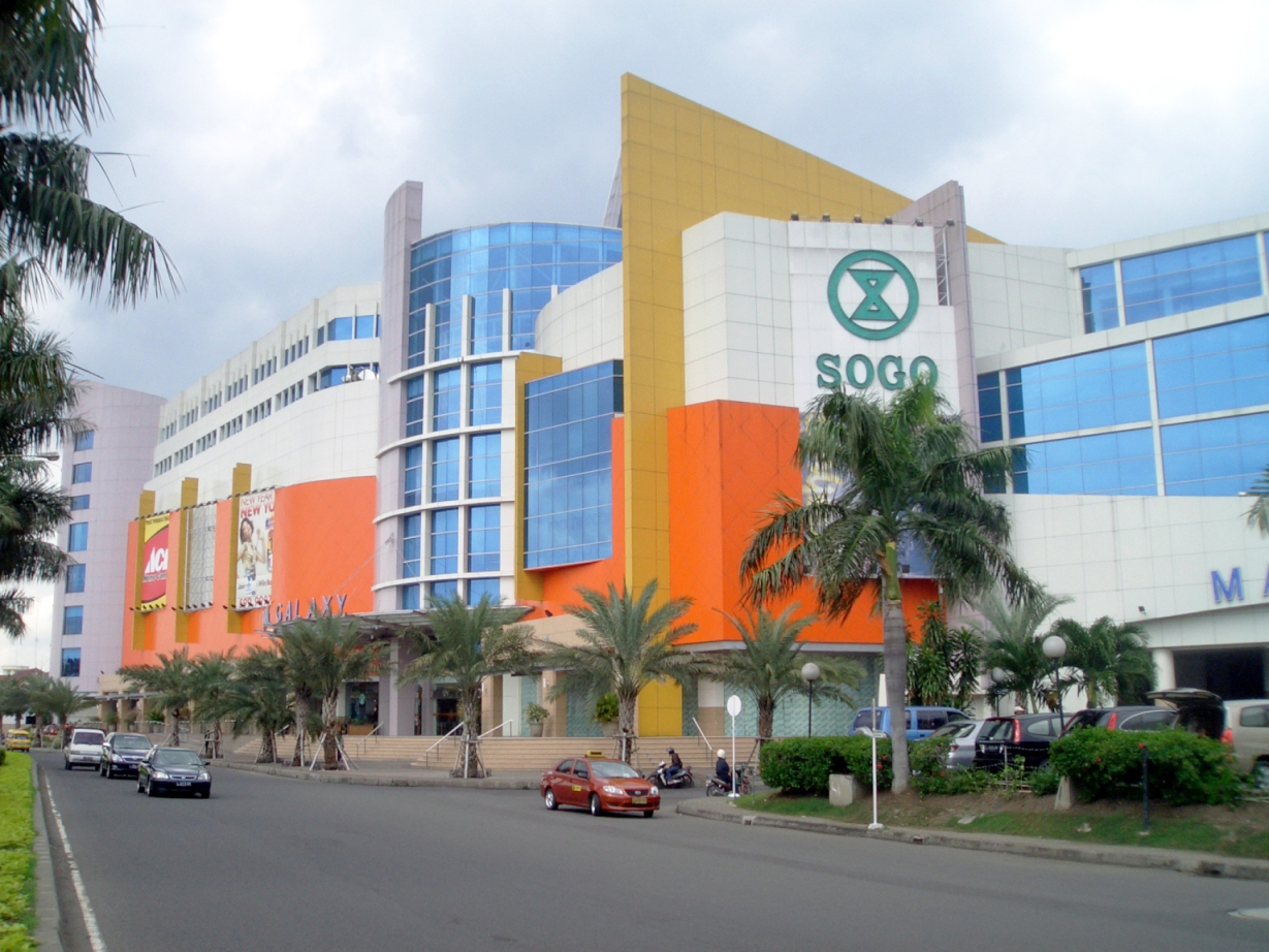 External View Galaxy Mall